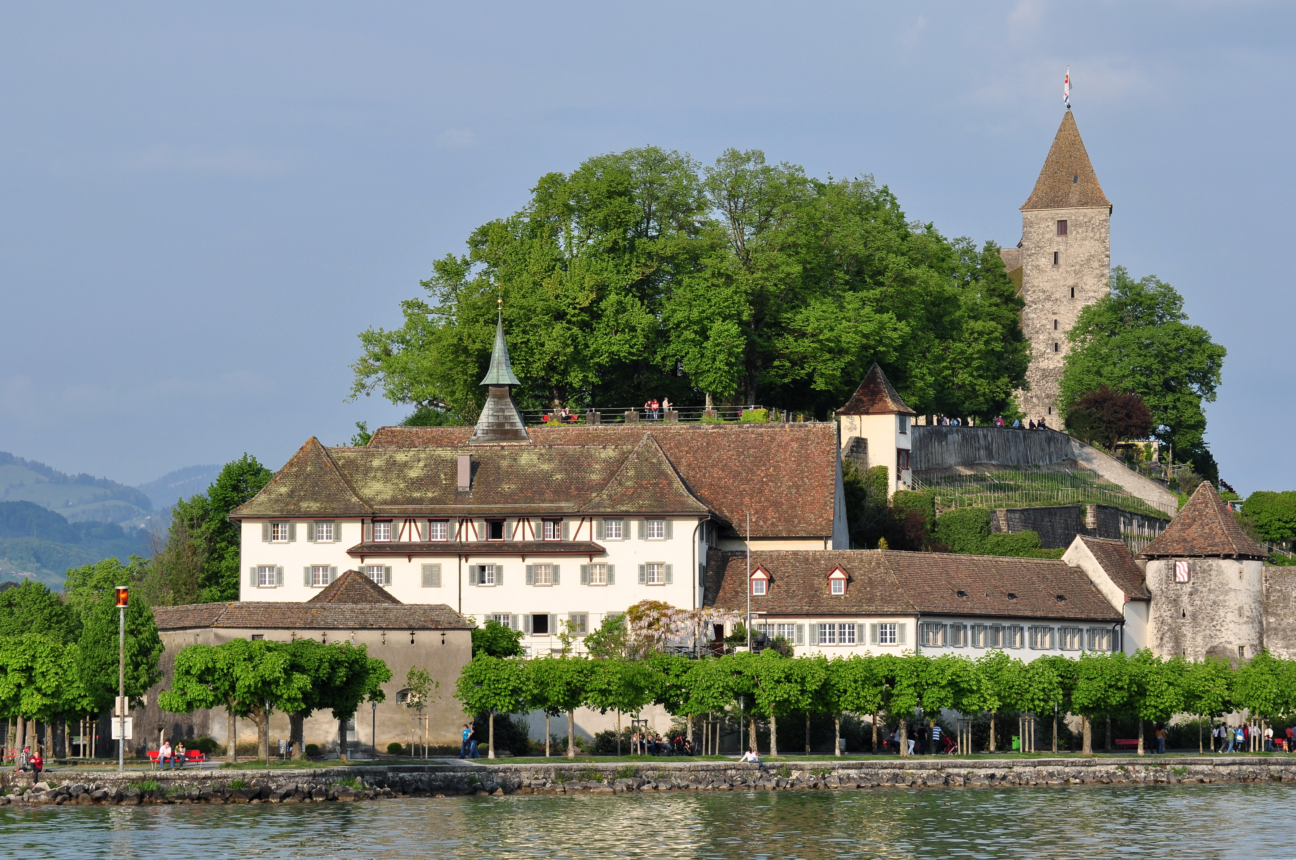 Rapperswil (Switzerland) : Lindenhof hill, Kapuzinerkloster, the castle (Schloss), and on lakeshore the Endingerturm tower, as seen from as seen from ZSG motorship MS Limmat.